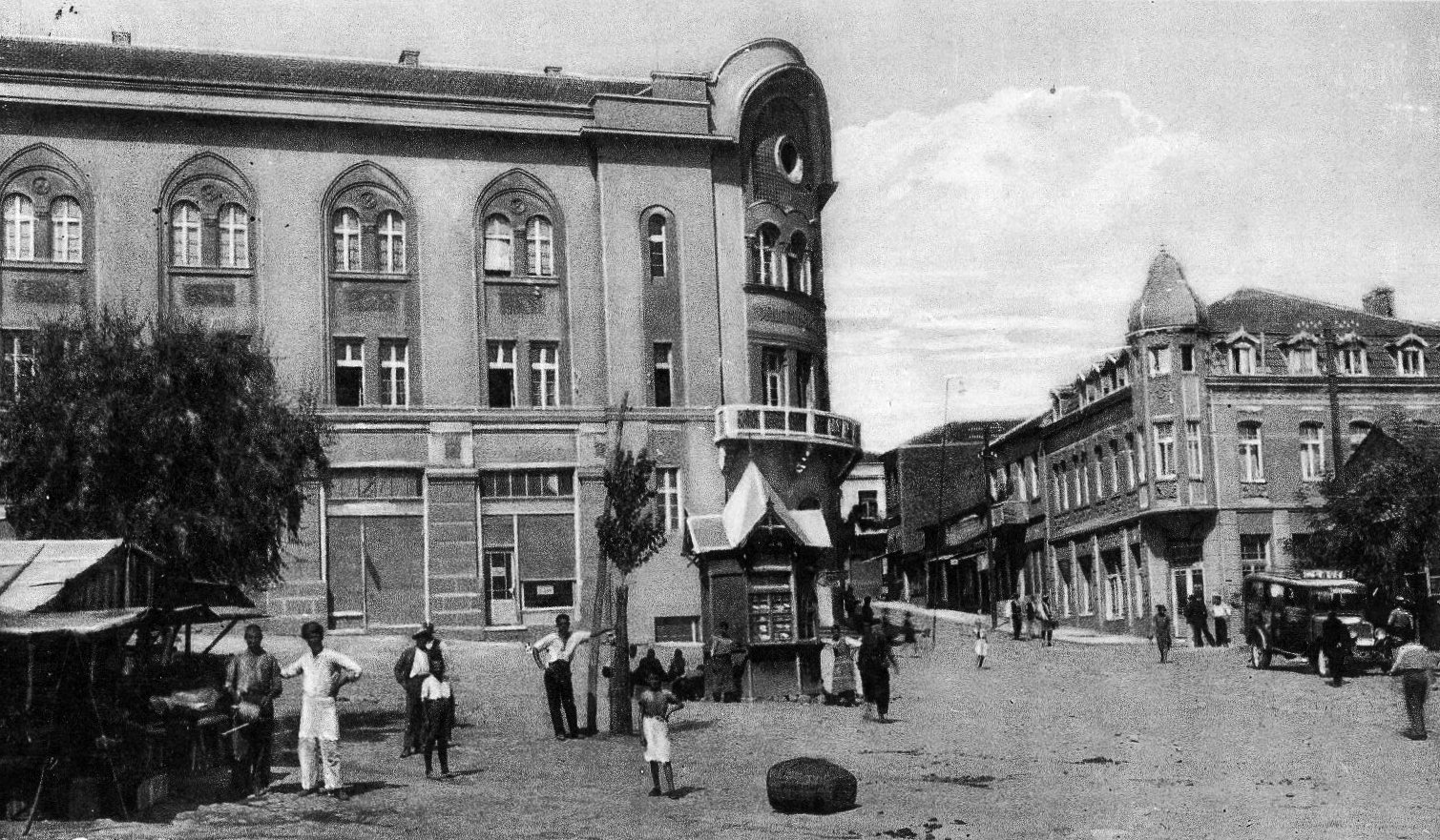 Postcard of Strumica, Municipal Building, 1930's This media file is produced by Wikipedian in Residence in Category:Wikipedian in Residence at DARM in 2016.